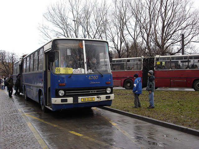 The Public Transport Company of Bratislava arranged for the citizens a nice farewell / last-ride with last three old busses of the Ikarus model 280 operated in Bratislava between 1974-2008.